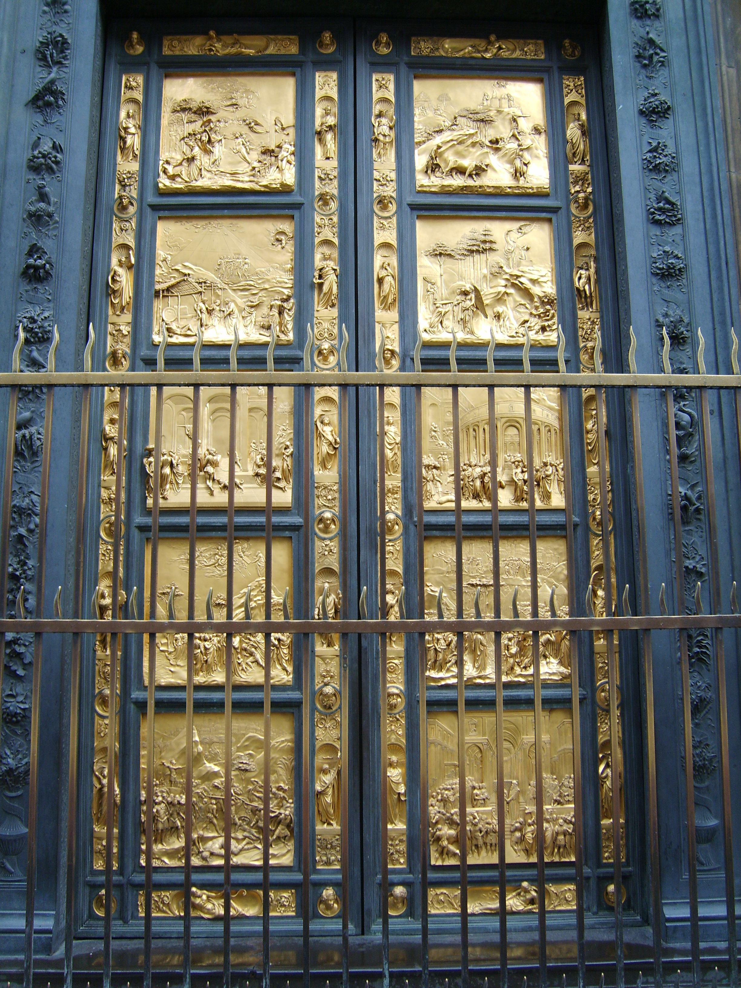 The Gates of Paradise-General view